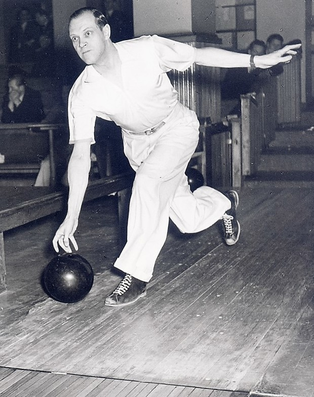 Finnish bowling pioneer and entrepreneur Kauko Ahlström (1914–1983)